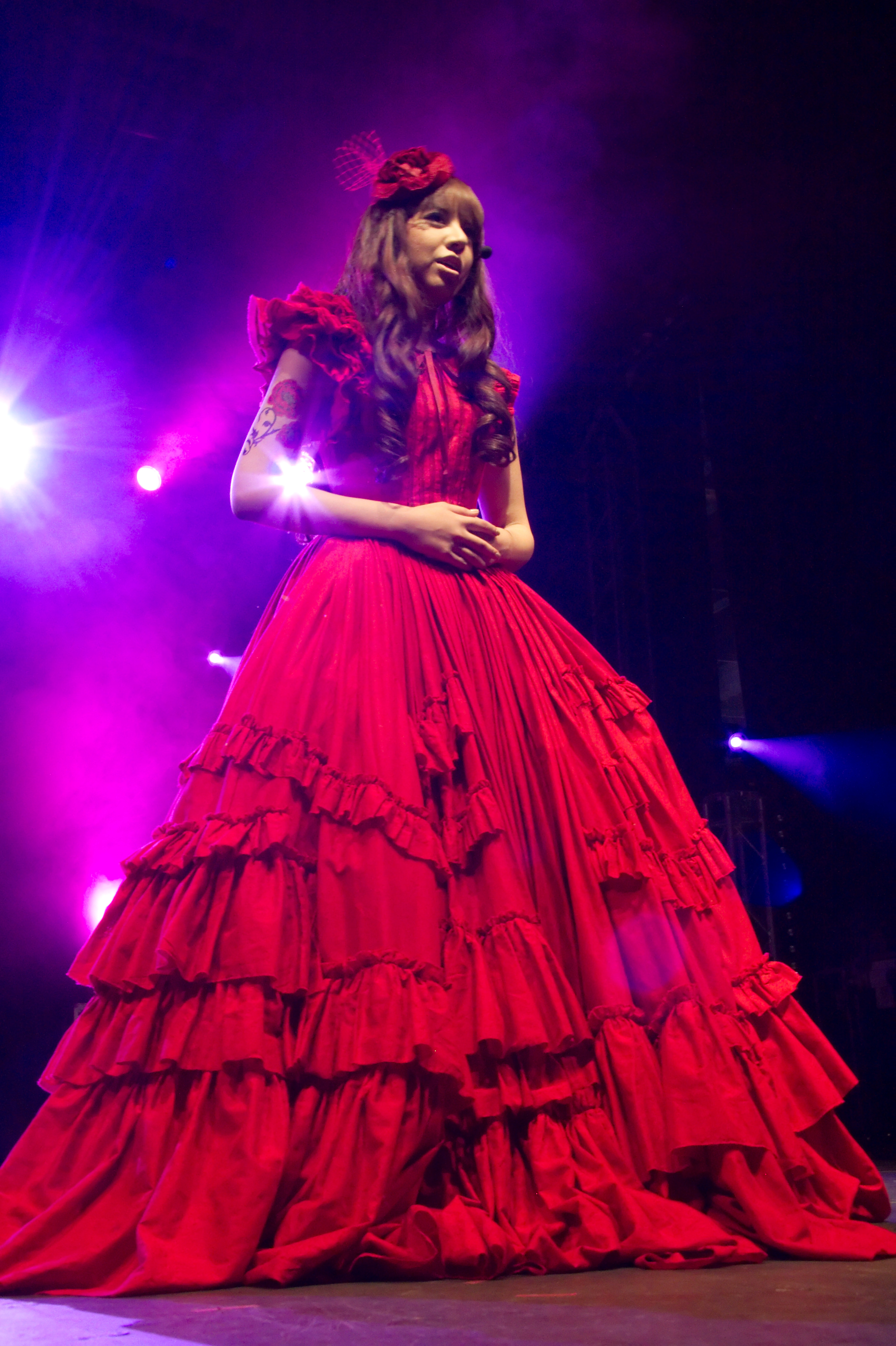 Kanon Wakeshima live at Japan Expo 2009 (Paris, France)